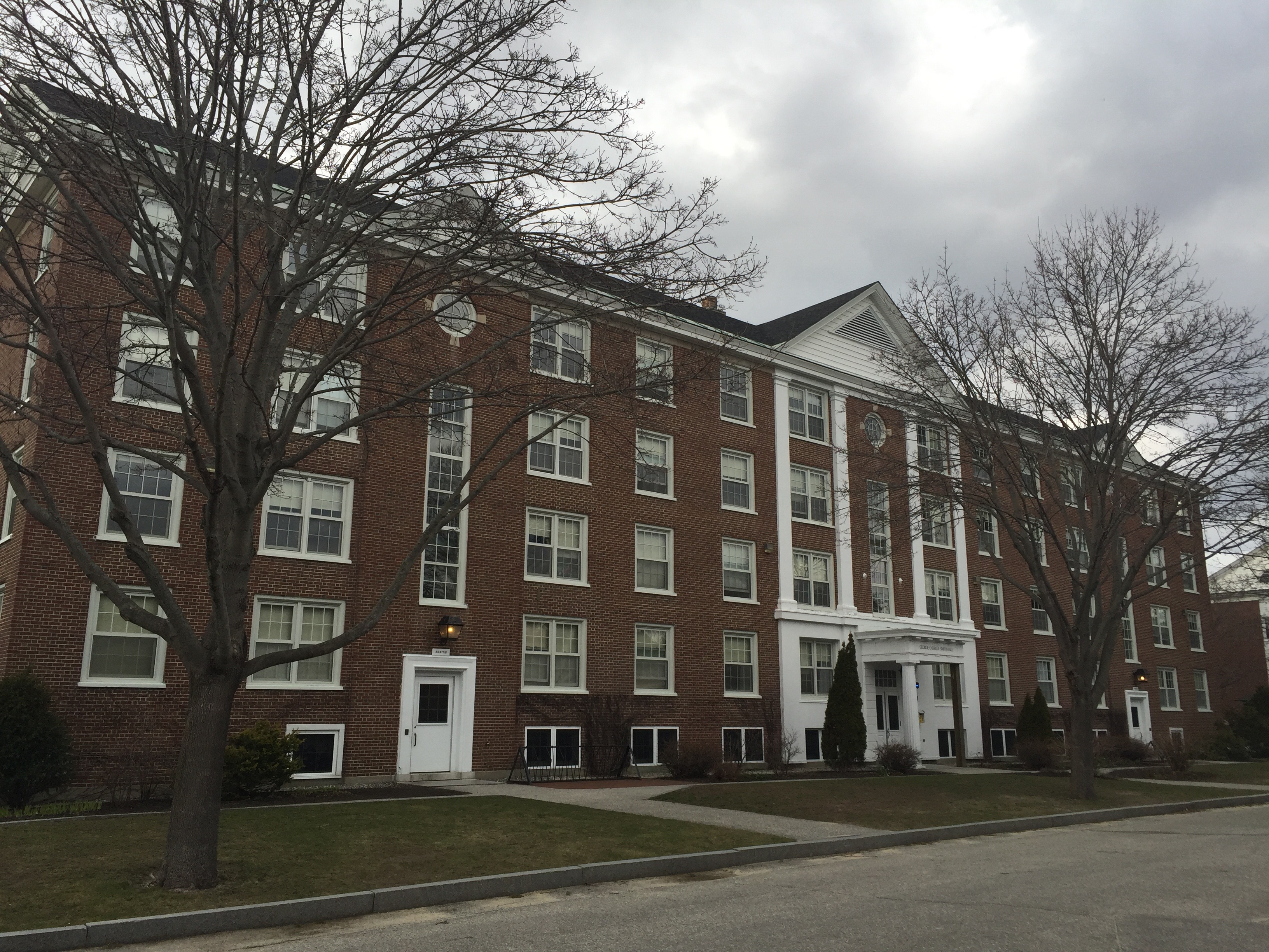 Smith Hall at Bates College